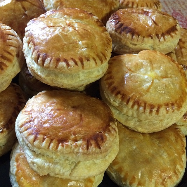 Galette de Rois -King's Cake with Red Bean Paste and Chestnut